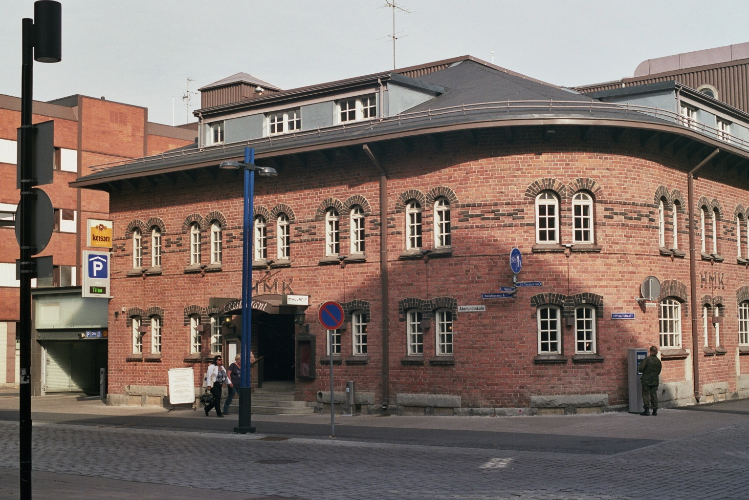 Restaurant Myllärit in Tulli, Tampere, Finland. Designed by architect Berndt Blom and completed in 1903, the building originally housed a steam mill.